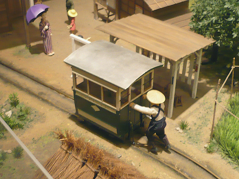 Model railroad of Taishaku Handcar Tramway, shown at Katsushika Shibamata Tora-san Memorial Hall, Tokyo.